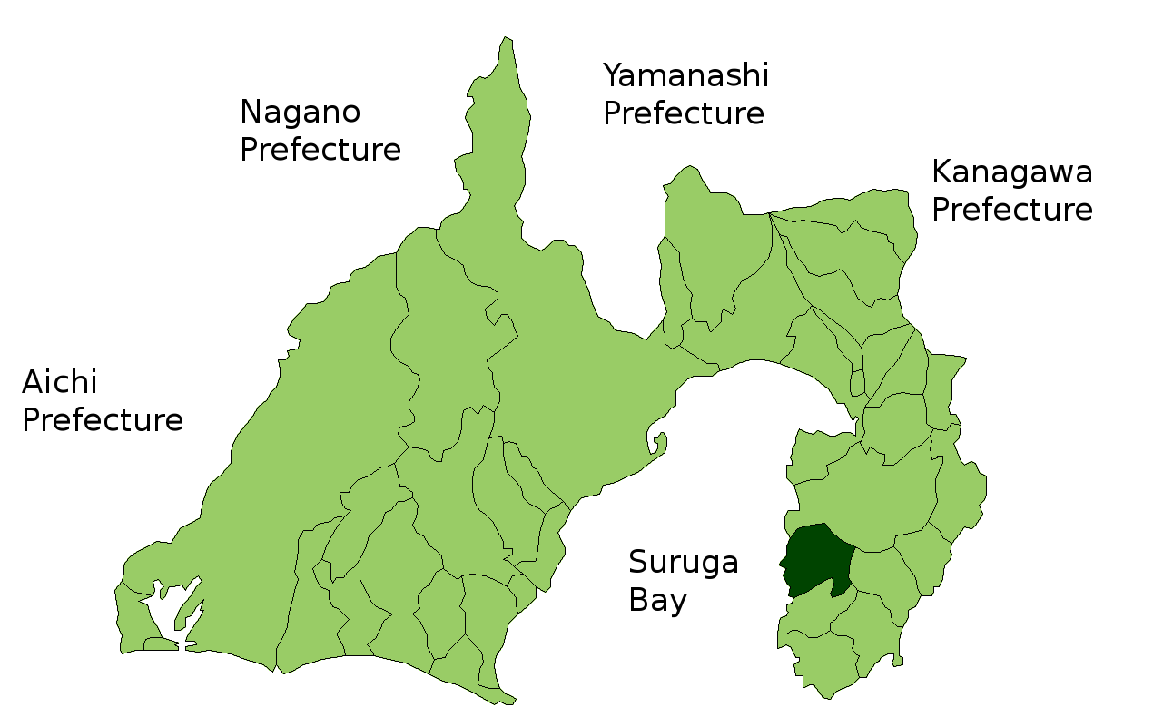 The location of Nishiizu in Shizuoka Prefecture, Japan